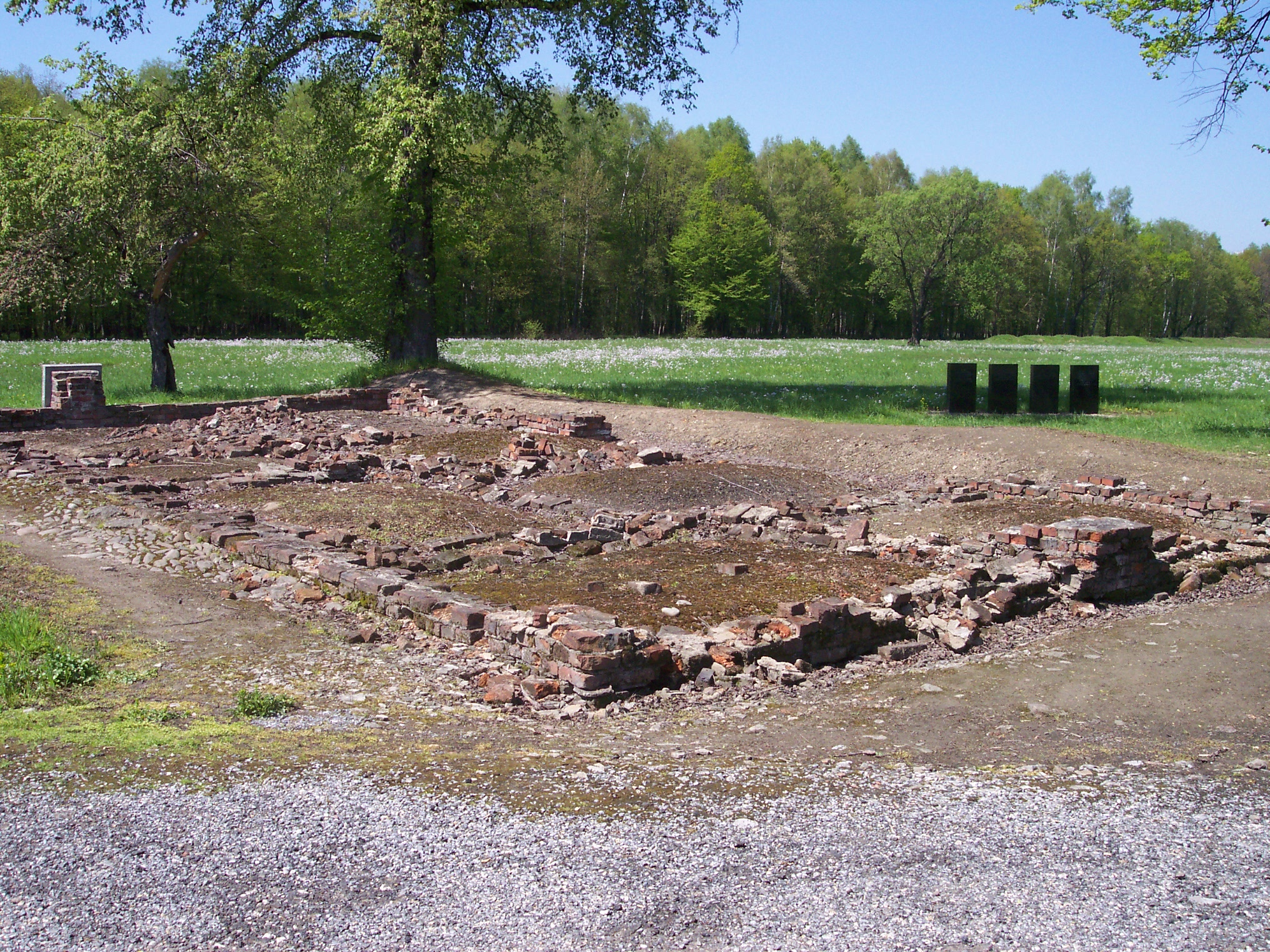 Ruin of the White House (Pill-box II) in Auschwitz II (Birkenau)